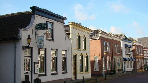 Kerkstraat, a street in Bodegraven